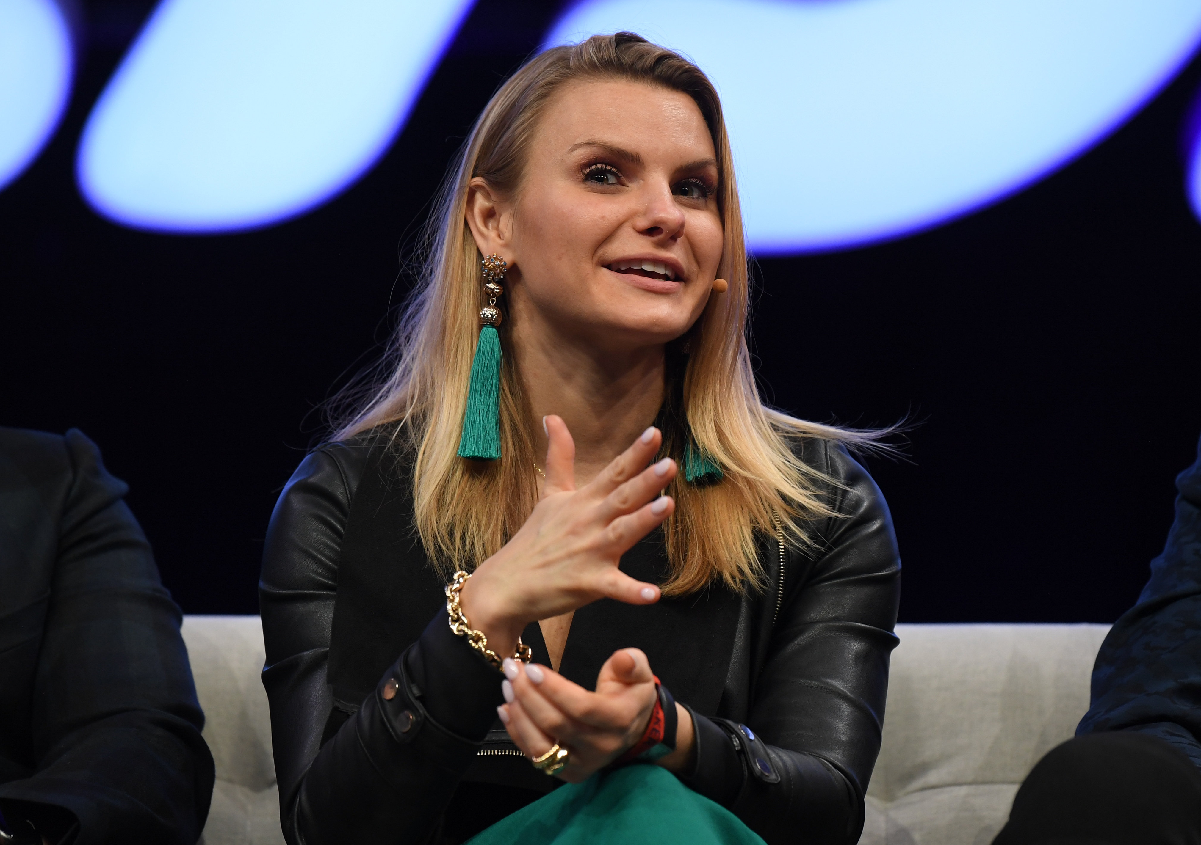 23 May 2019; Michele Romanow, Co-Founder & President, Clearbanc, on Center Stage following day three of Collision 2019 at Enercare Center in Toronto, Canada. Photo by Stephen McCarthy/Collision via Sportsfile